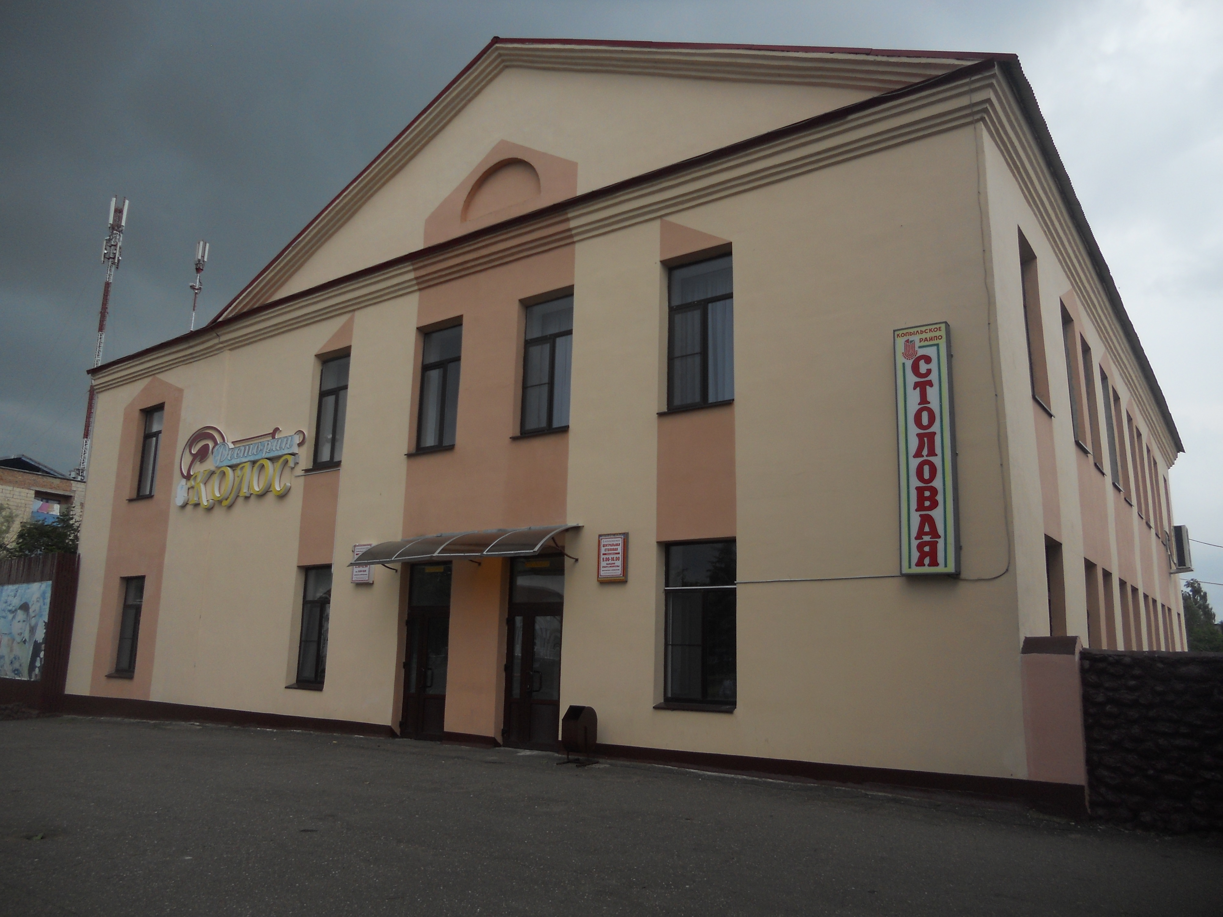 Restaurant "Kolas" in Kapyl